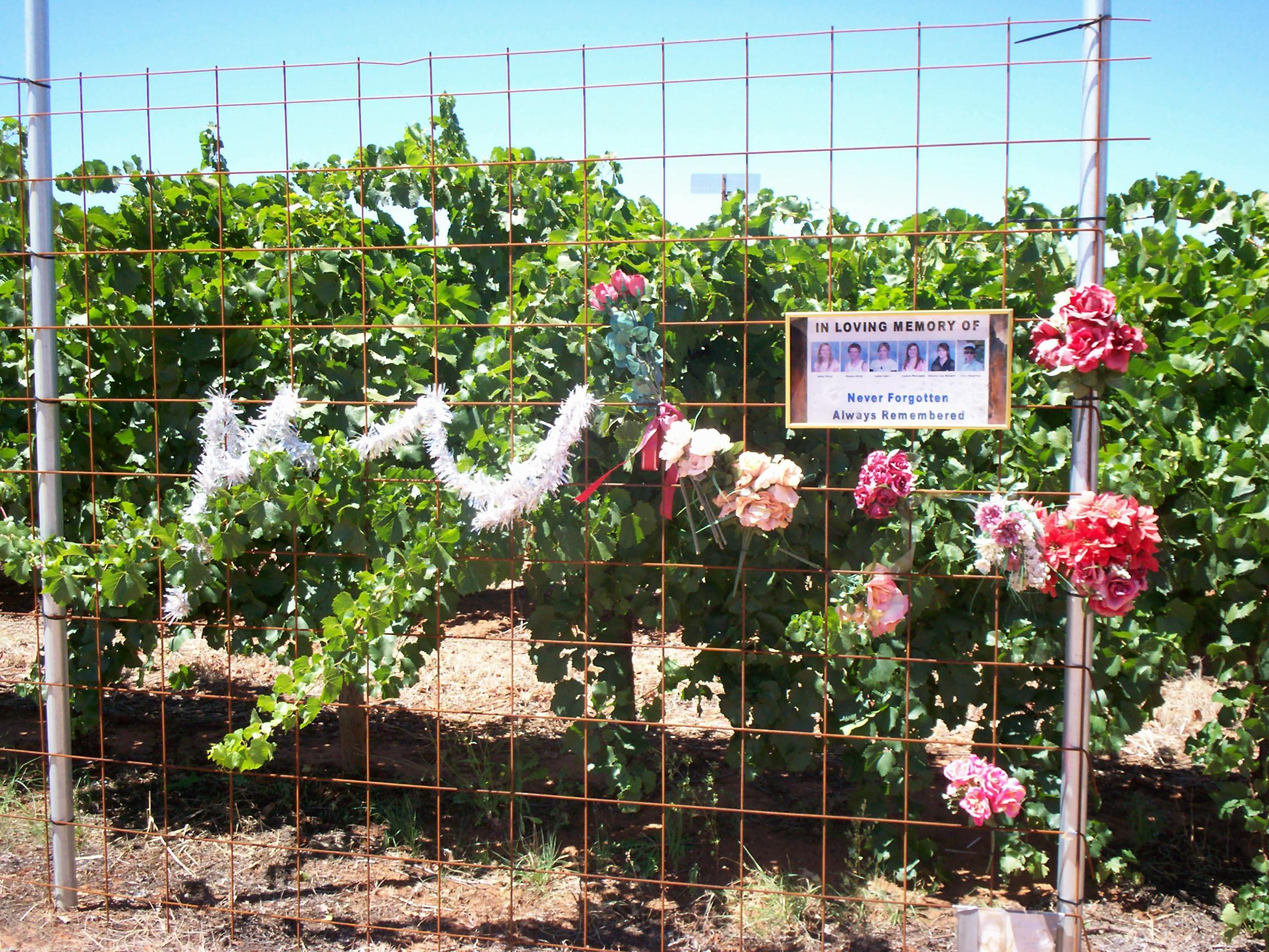 Temporary roadside memorial in Myall St, Cardross, for the Cardross road accident, Cardross, Victoria, Australia.